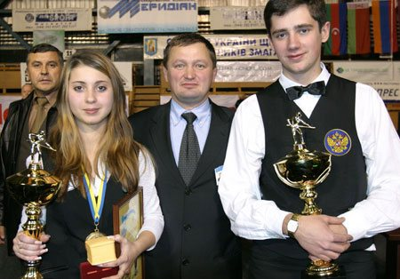 Алена Афанасьева - чемпионка Евпропы по русскому бильярду в 2003 году.